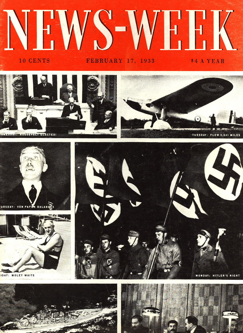 Cover of the February 17, 1933 (vol. 1 issue 1), first issue of News-Week magazine (now Newsweek). The issue features seven photographs from the week's news on the cover. Featured are: Adolf Hitler, Franklin Roosevelt, Joseph Stalin, Franz von Papen. The issue has 32 pages and cost 10 cents.